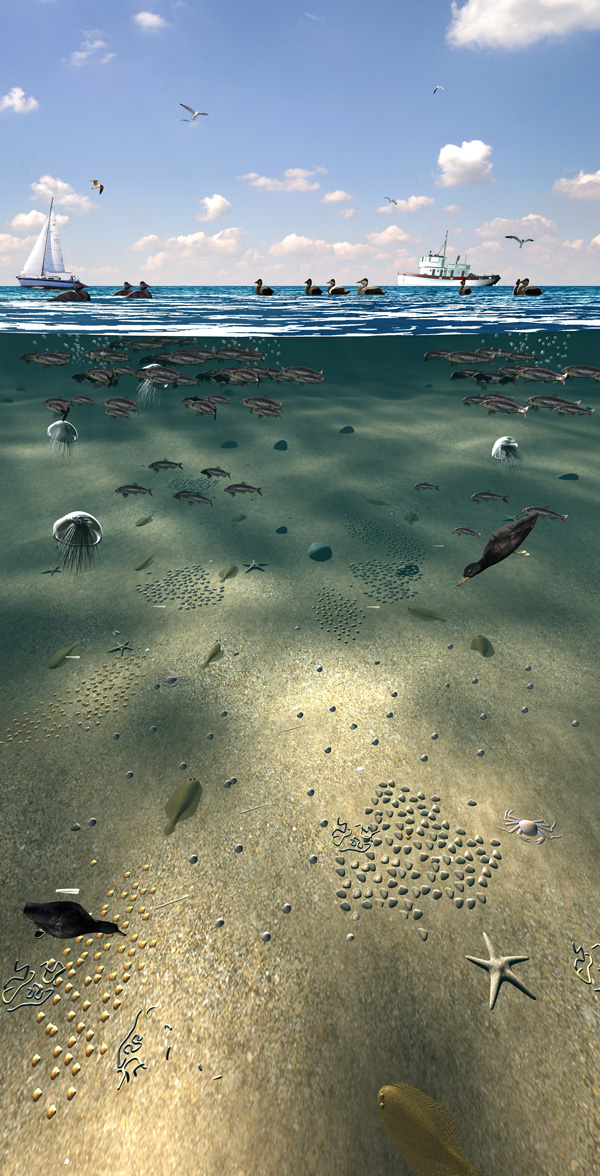 Computer-animated Picture showing the under water situation as expected in 2015 near the Maasvlakte 2 project of Mainport Rotterdam.